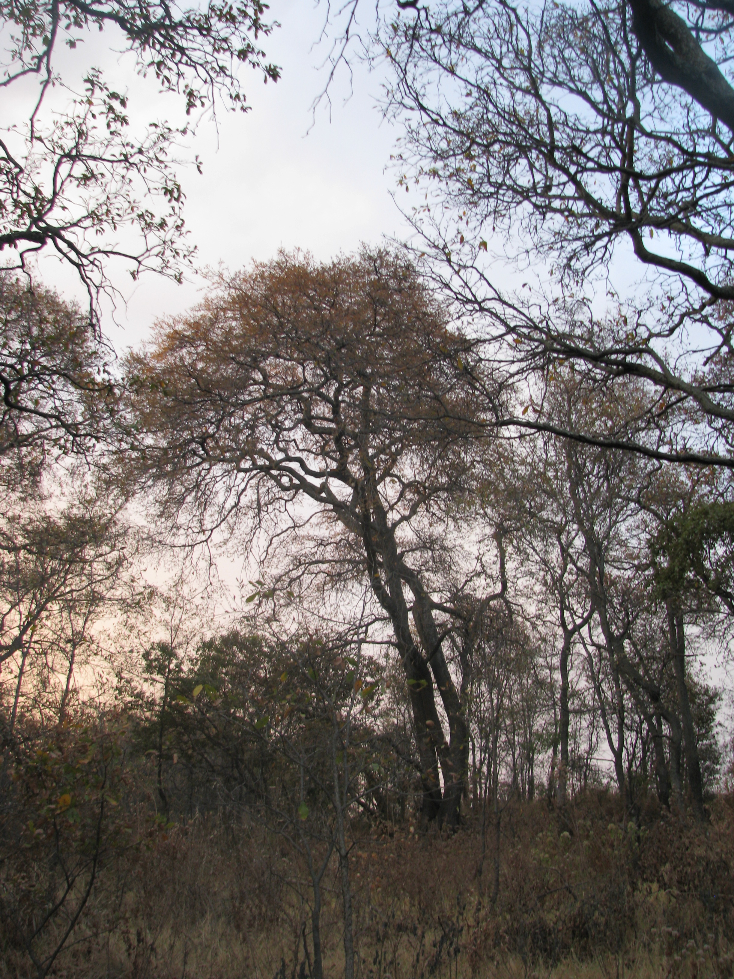 Dry pine-oak forest in the dry season (end of March). Álvaro Obregón, México.